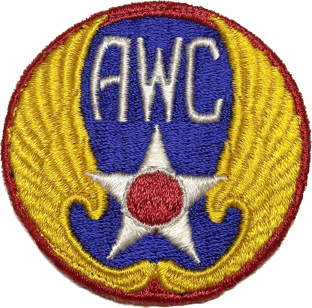 AIRCRAFT WARNING CORPS (WWII)